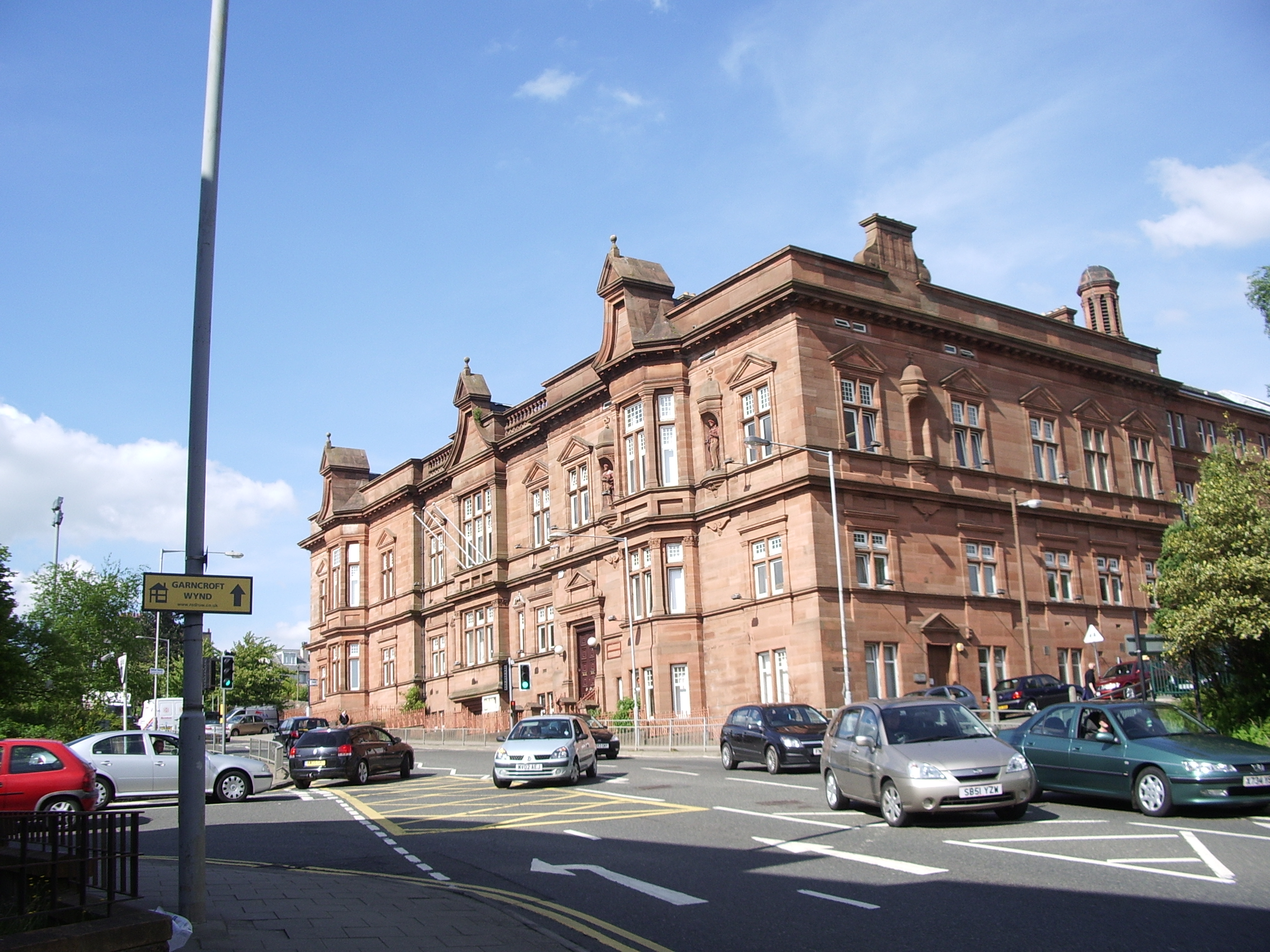 Coatbridge Municipal Building, Coatbridge, looking north-east. This was the former seat of Monklands District Council.